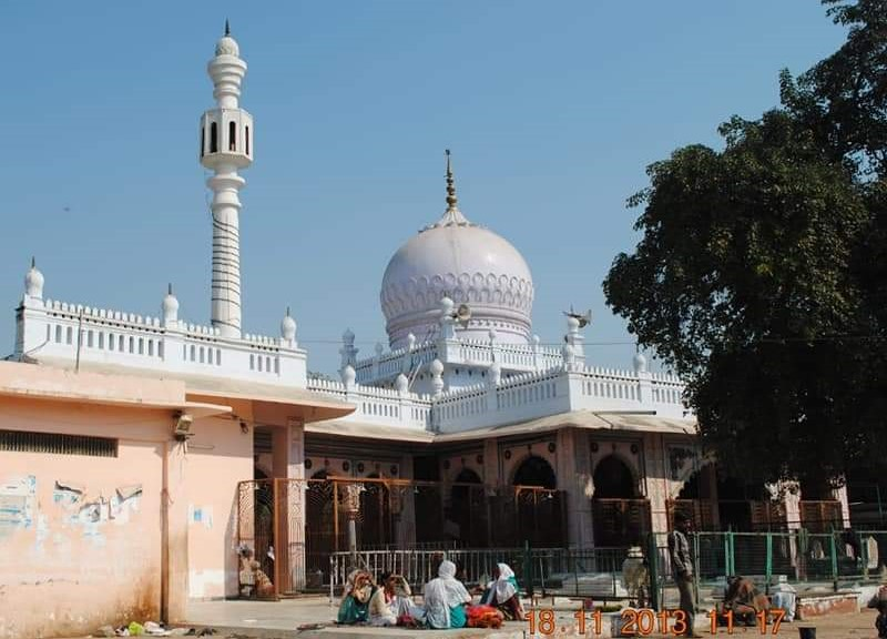 Dargah Ameer Abulola Agra founder of silsila Abulolaiya.